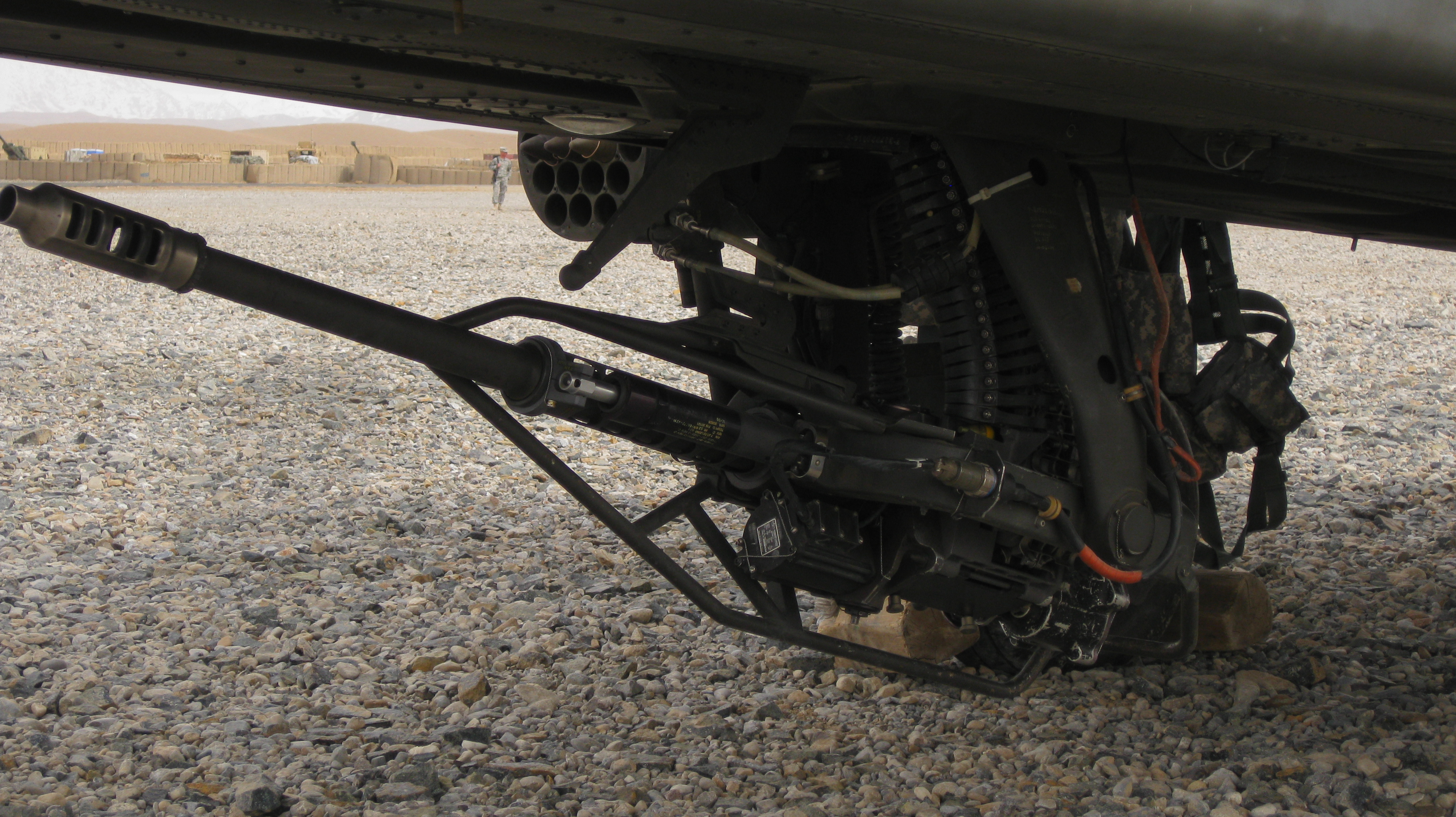 Apache Gun (M230 Chain Gun 30mm) taken in Logar Province, Afghanistan